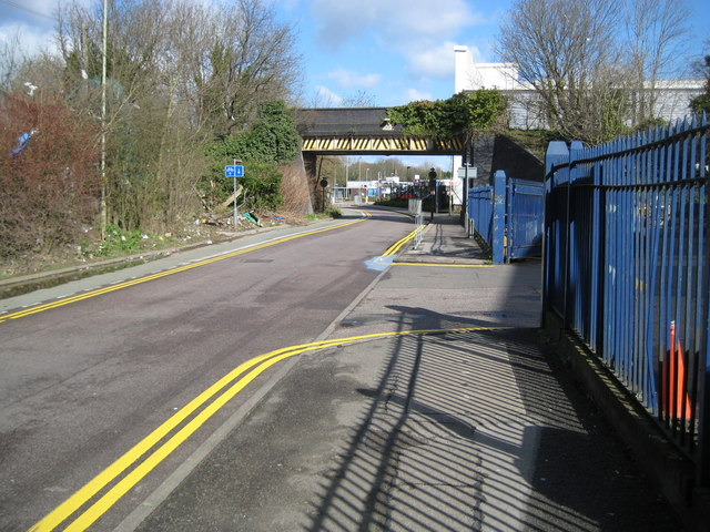 Watford: Ascot Road railway bridge The bridge used to carry the Croxley Green branch line railway over Ascot Road. 732303 is just to the right of the bridge. Ascot Road is now a one-way road with traffic coming in this direction, although there is a cycleway on the far side of the road in the opposite direction.